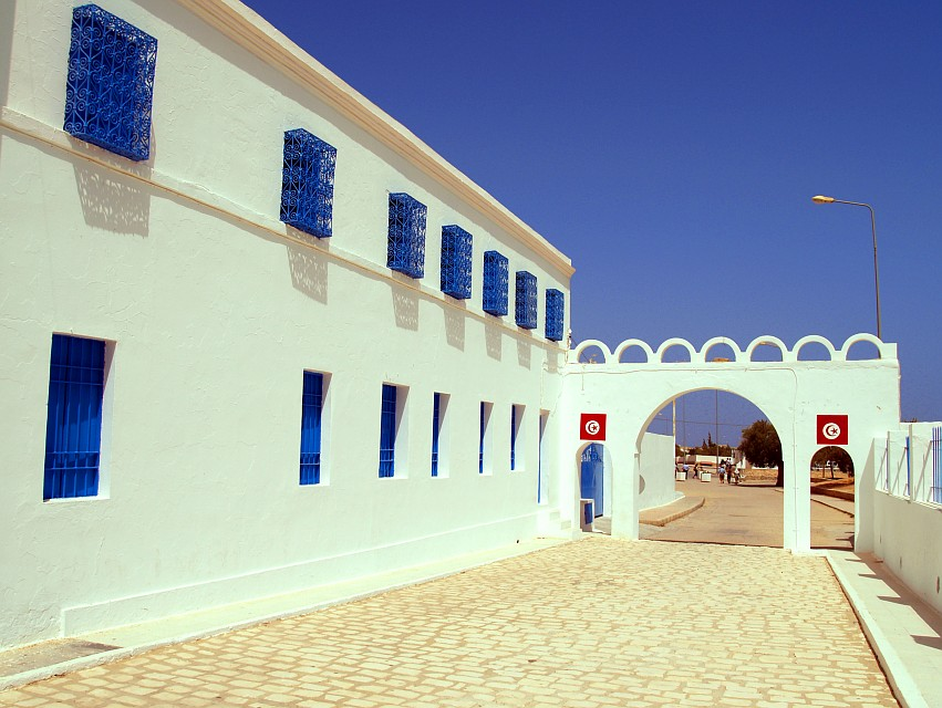 El Ghriba Synagogue